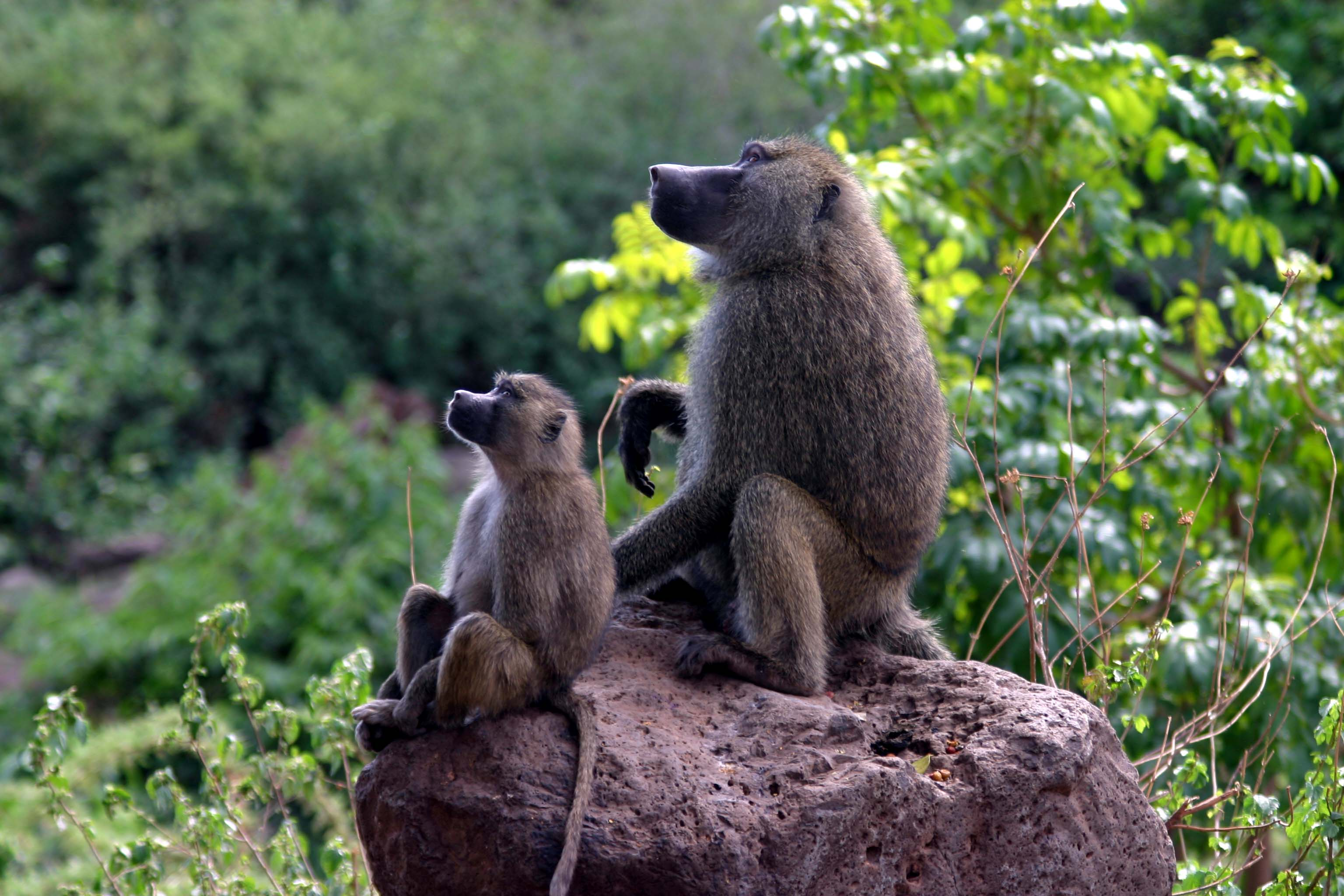 Baboon and its mother on a rock, photographed at Lake Manayara National Park, Tanzania